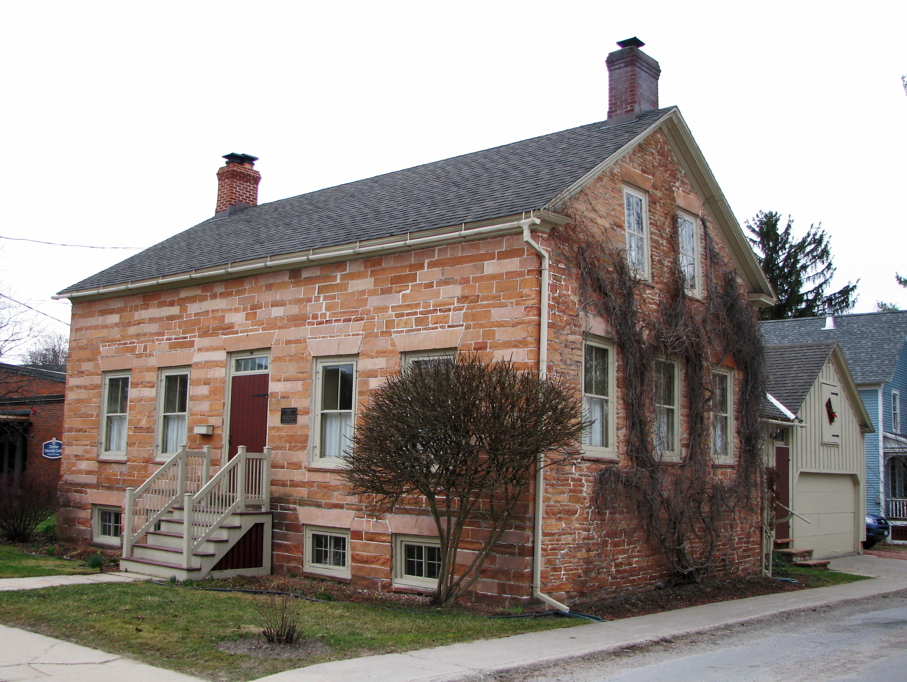 Clarkson-Knowles Cottage, Potsdam, New York